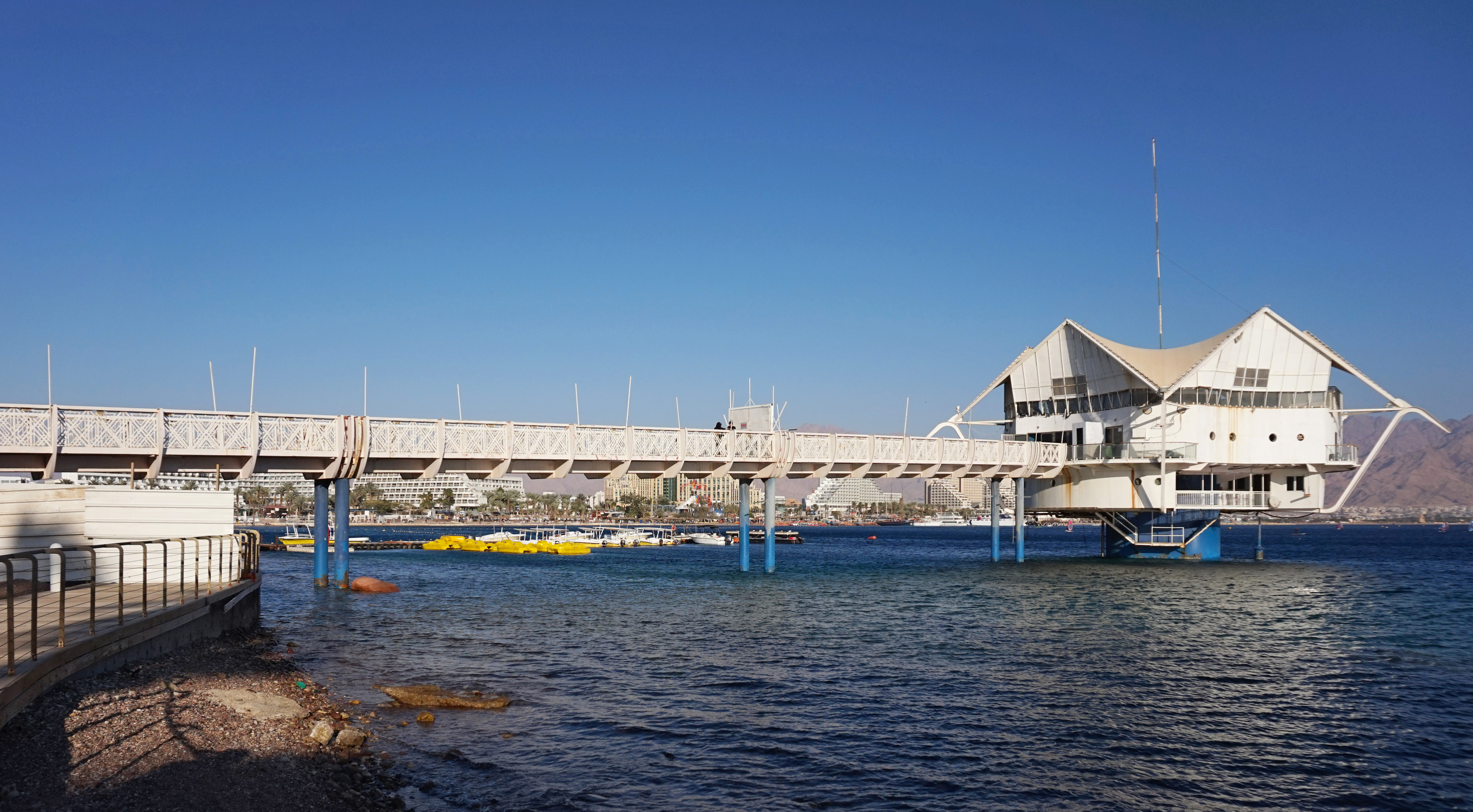 Red Sea Star in EilatThis photograph was taken with a Sony ILCE-5000